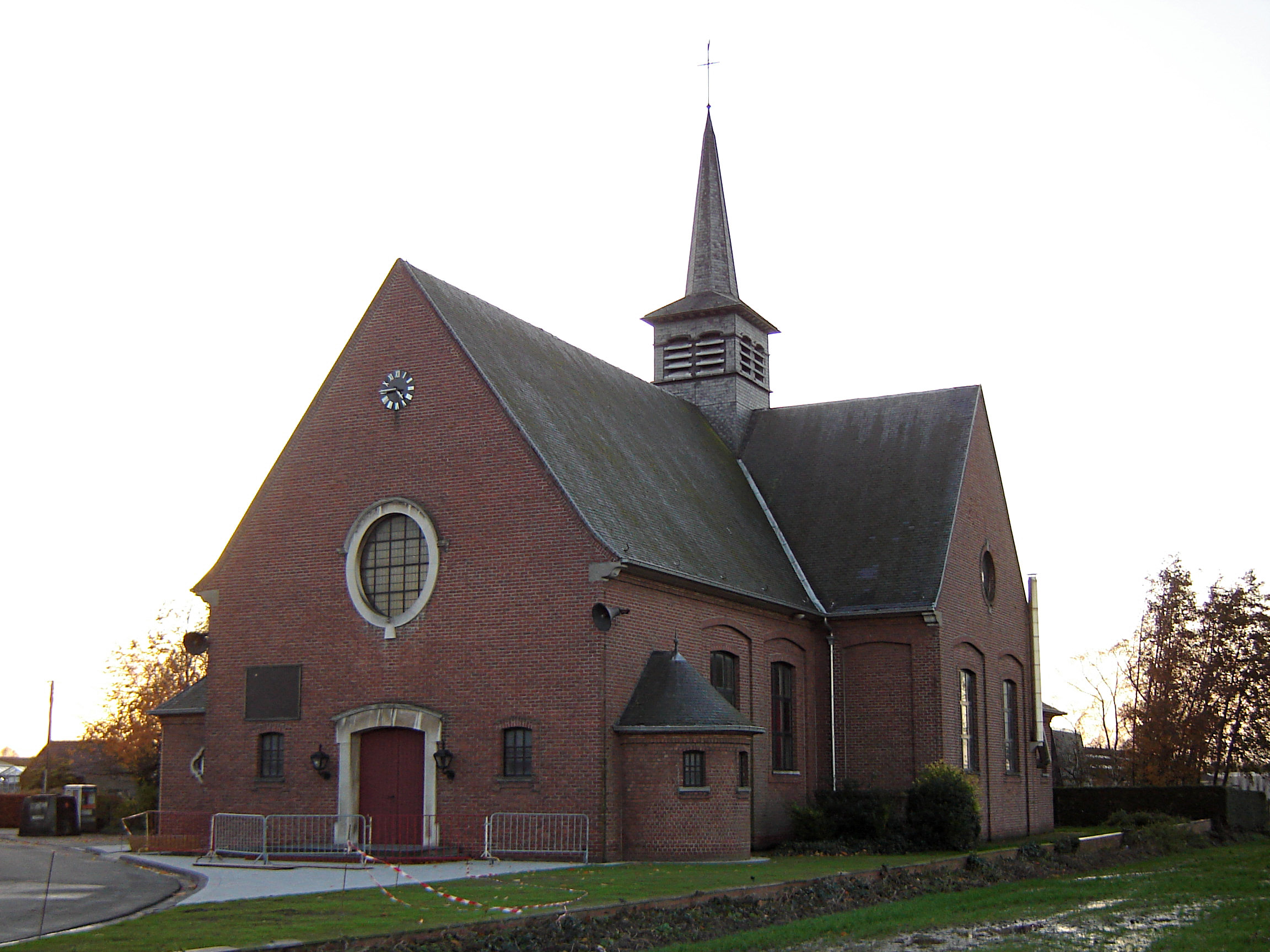 Church of Saint Eligius in Vijfwegen. Vijfwegen, Staden, West Flanders, Belgium